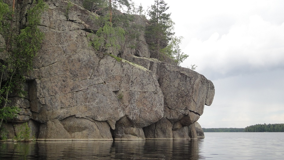 There are geological stacks in the rock. Water erosion has taken place upper than the water line nowadays. Lake Puula, Hirvensalmi, Eastern Finland.